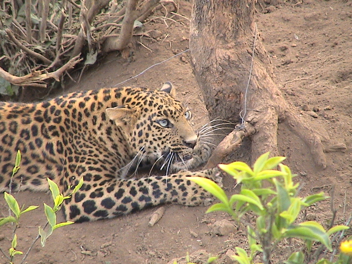 Leopard trapped in a snare, Udhagaimandalam, South India